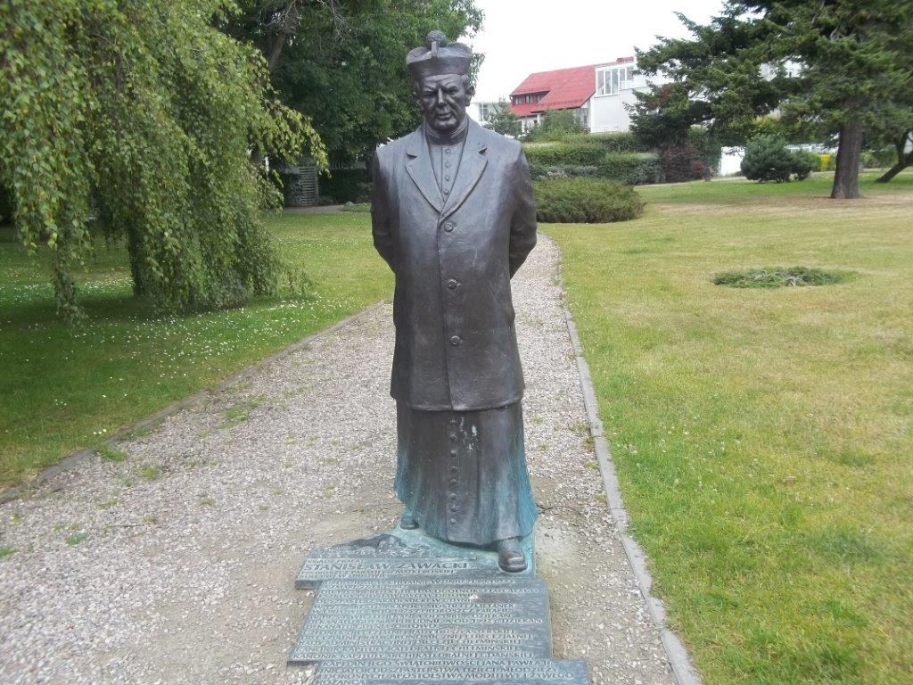 Stanisław Zawacki statue